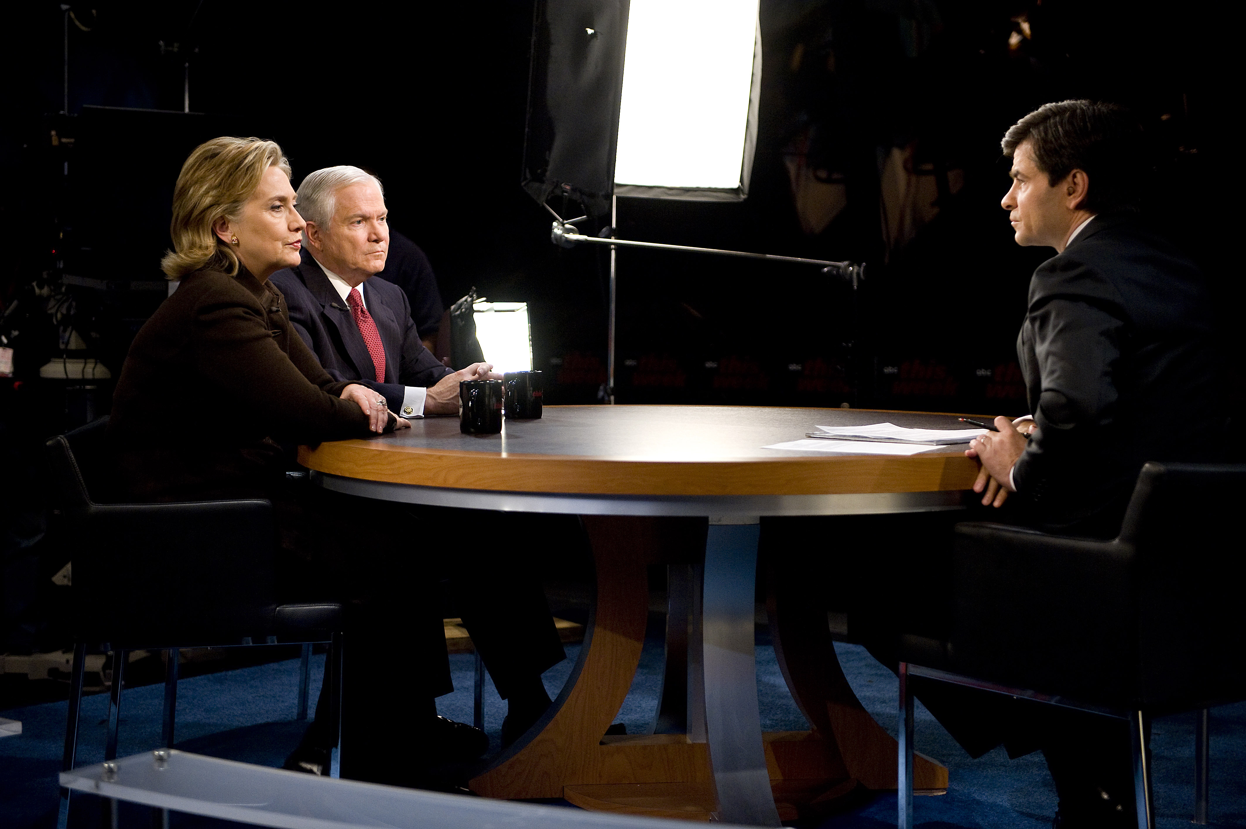 Secretary of Defense Robert M. Gates and Secretary of State Hillary Clinton talk with George Stephanopoulos, host of ABC's "This Week," in Washington, D.C., on Dec. 5, 2009. This was the first time the two cabinet members had appeared on Sunday morning talk shows together.